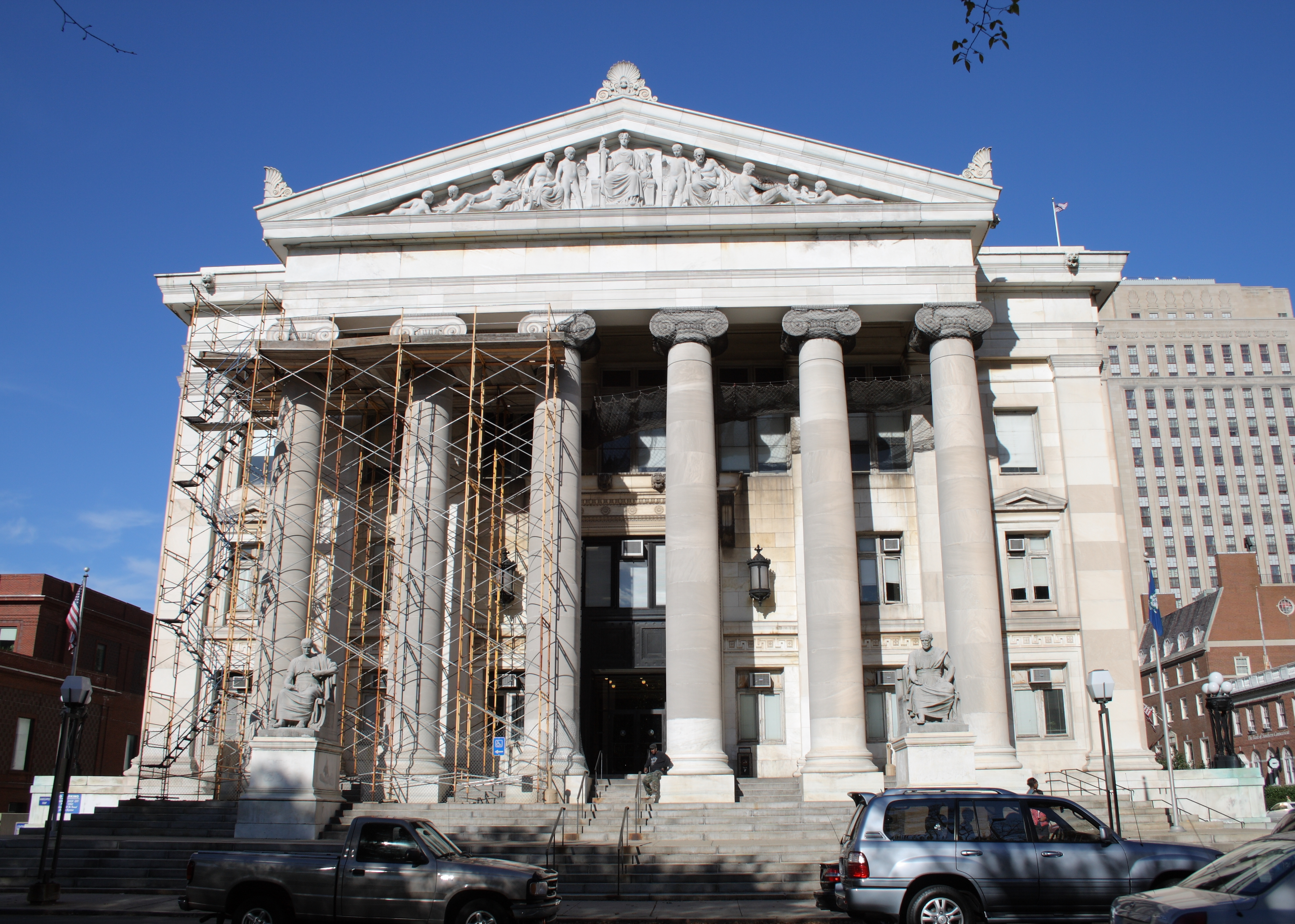 The old New Haven County Courthouse at 121 Elm St., a Neo-classical Beaux-Arts building designed by William Allen and Richard Williams and constructed between 1909 and 1914. It currently serves as the Geographical Area #23 Courthouse. It is a Registered Historic Place.